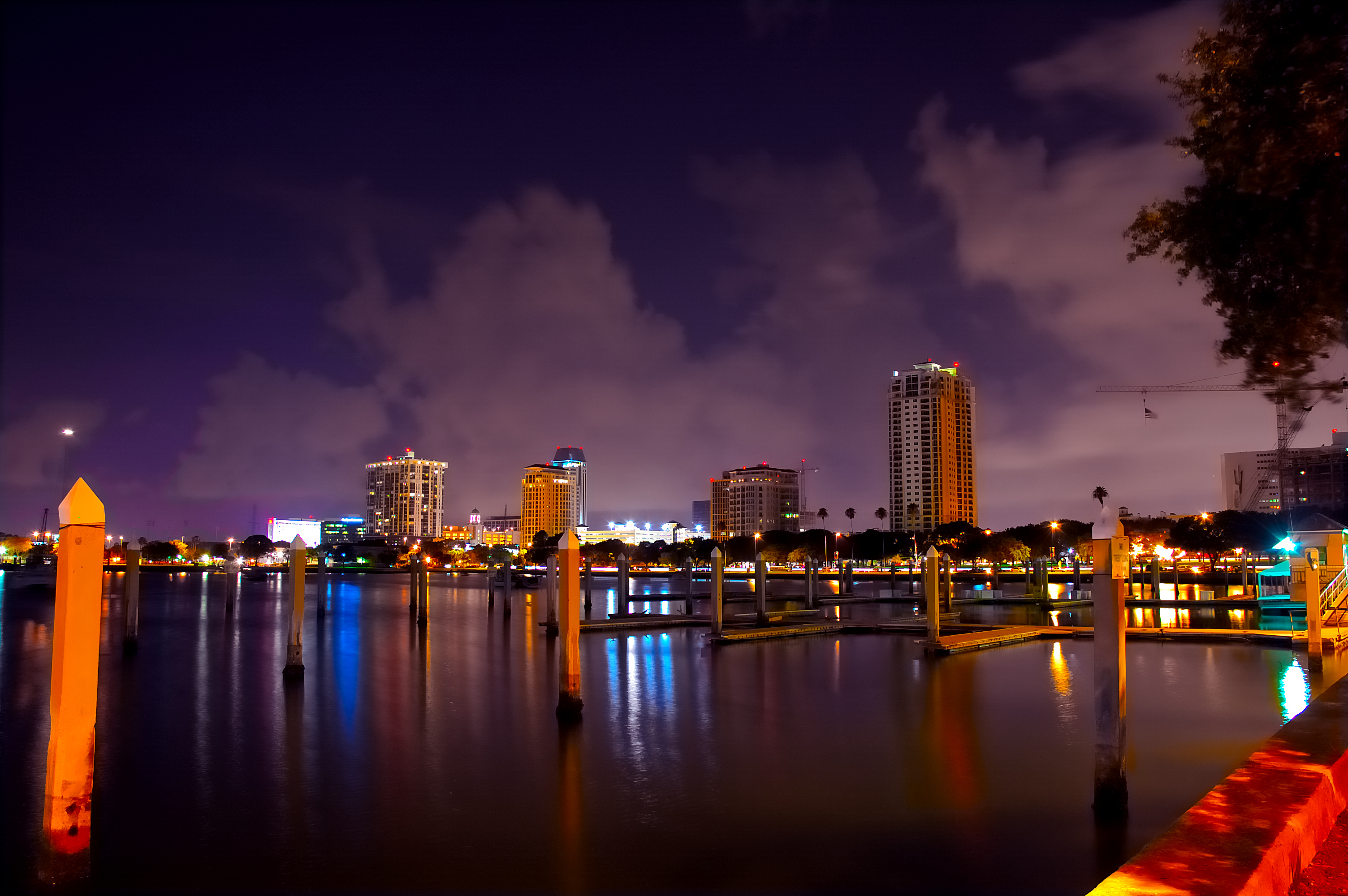 Nighttime skyline of downtown St. Petersburg.downtown_skyline_stpete